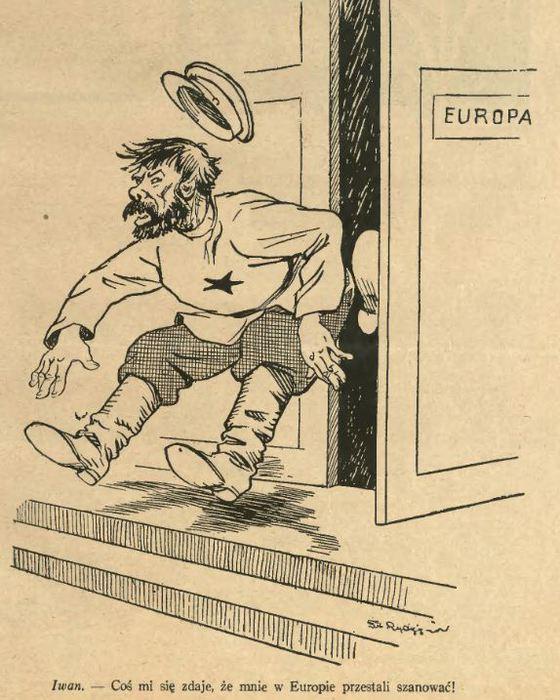 “Ivan” is kicked out of Europe’s door—a caricature devoted to the Munich Agreement of 1938 expresses the idea that Russia was alien to European civilization. Description found in The “Russian Bear” in Polish Caricature of the Interwar Period (1919–1939) Andrzej de LAZARI, Oleg RIABOV, the English translation of article appeared in in russican science journal, along with a copy of image